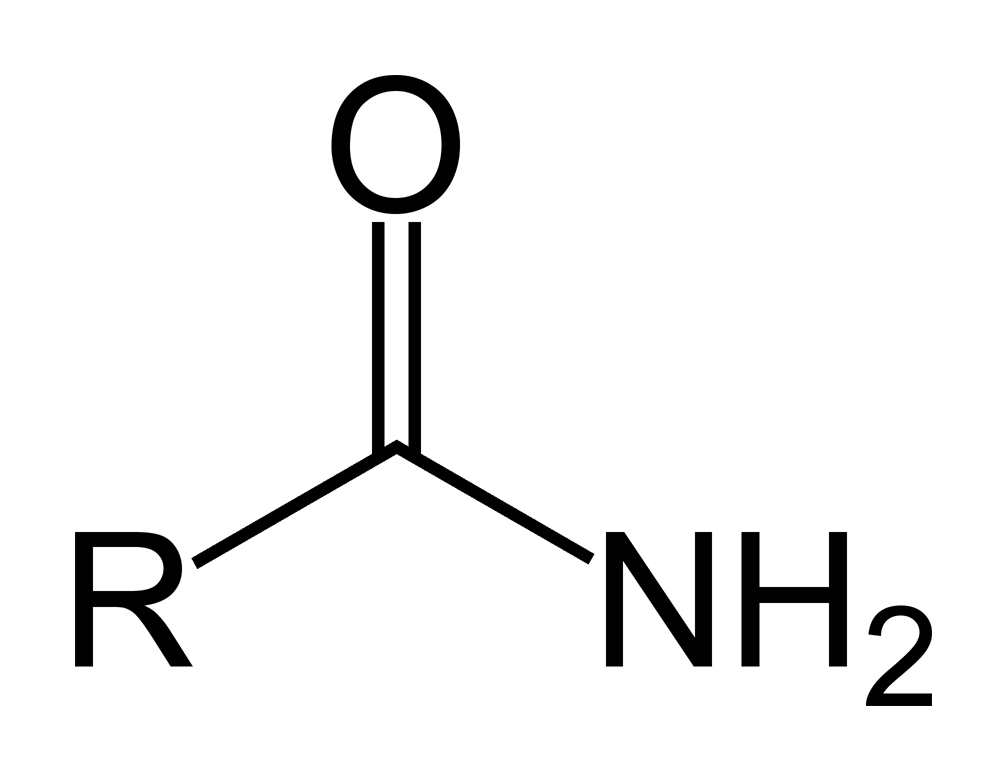 Description: Skeletal formula of a general primary amide group (RCONH2). Author, date of creation: self made by Ben Mills at 19:59, 14 March 2006 (UTC). Source: user-created image Comments: high-resolution black and white PNG; ChemDraw / Photoshop.